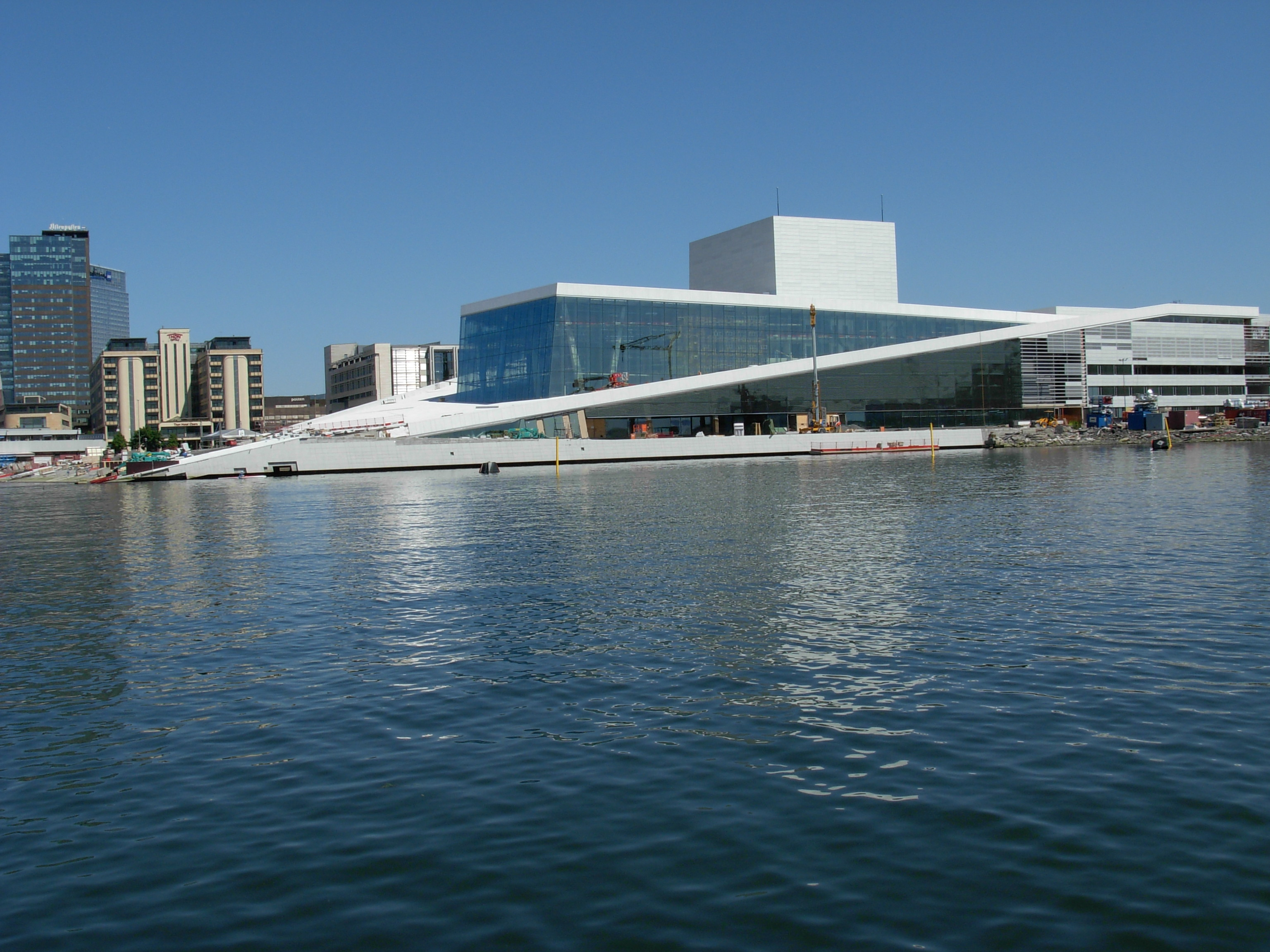 New Opera House, Oslo